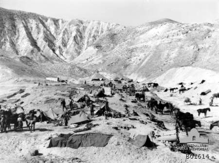 The camp of the Auckland Mounted Rifles in a secluded spot among the foothills of the Jordan Valley.